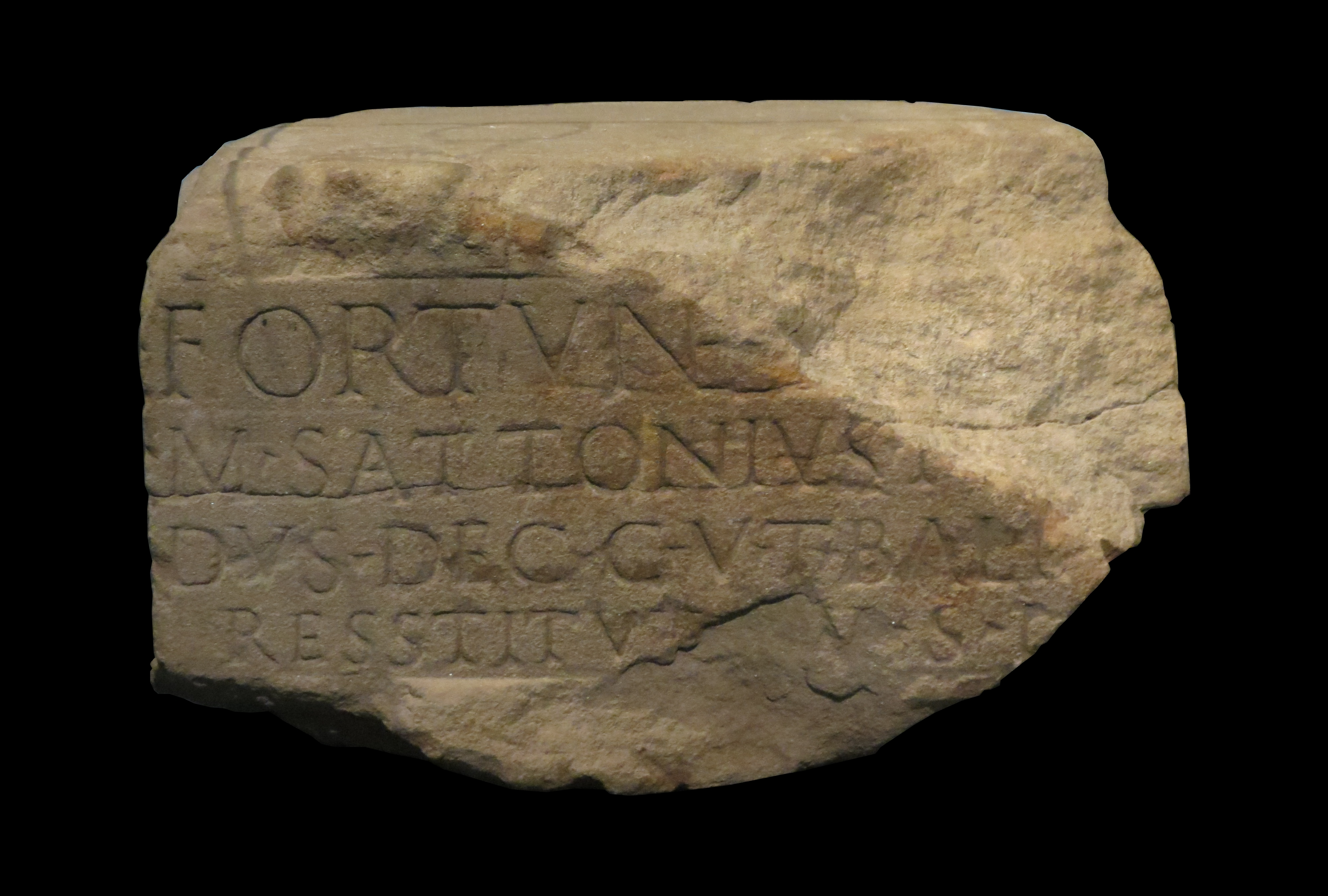 Votive inscription (AE 1959, 0009) to the honour of "returning Fortune" by Marcus Sattonius lucundus of Colonia Ulpia Traiana (Xanten) in the roman bath of Coriovallum Heerlen, The Netherlands